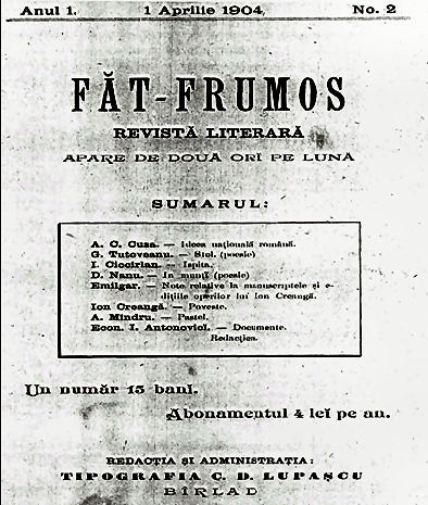 First page of the Romanian newspaper Făt Frumos, as used in 1904